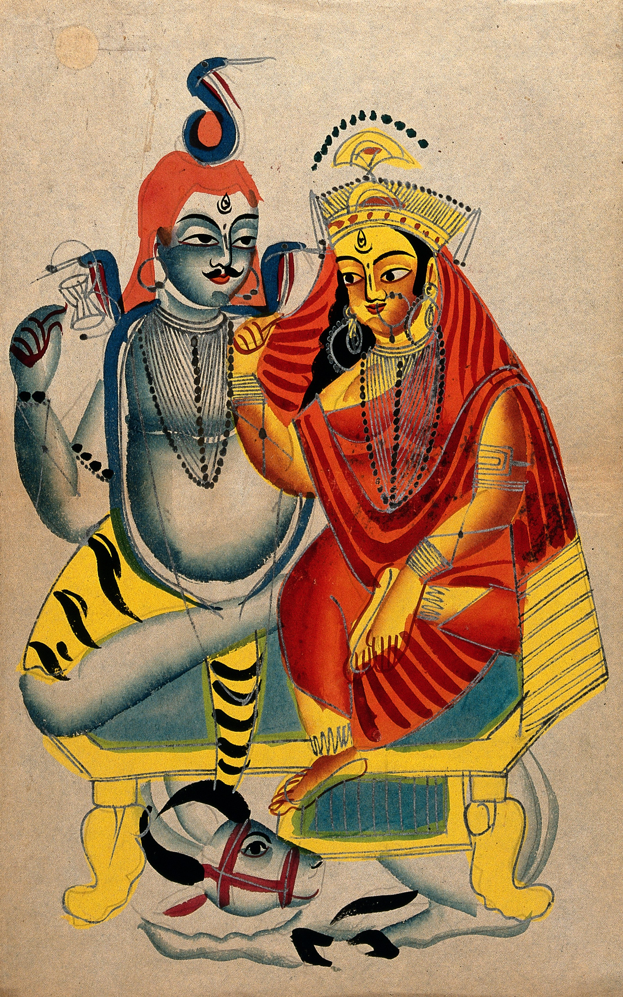 Shiva and Parvati sitting on their throne with Nandi the bull. Watercolour drawing. Iconographic Collections Keywords: hindu; ic; parvati; Religion; siva